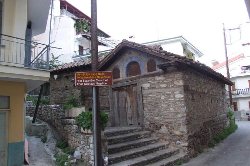 Church Kirche_Agios_Nikalaos_Magaliou in Kastoria, Greece